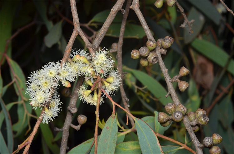 Flower buds, flowers and fruit of Eucalyptus radiata, near Nimmo Nature Reservem about 25km north of Jindabine, New South Wales